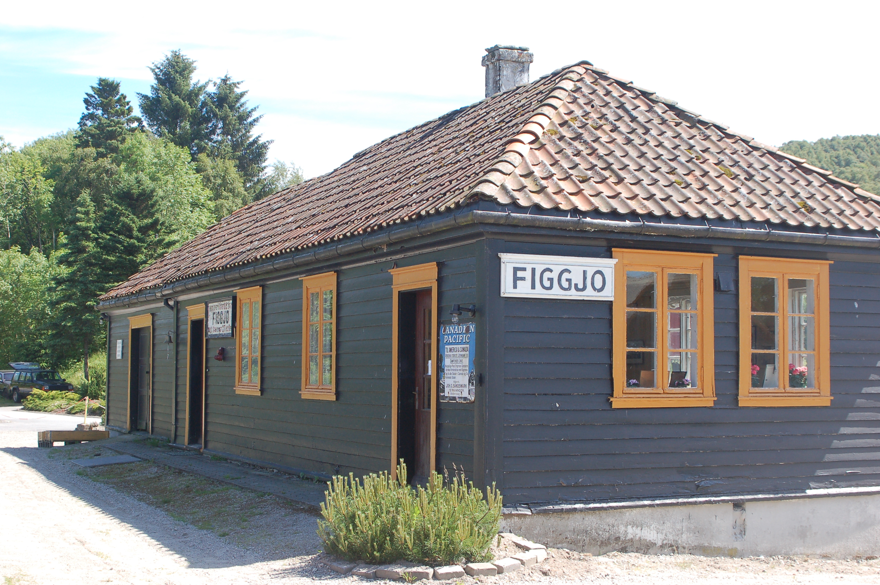 The trainstation at Figgjo, Rogaland, Norway